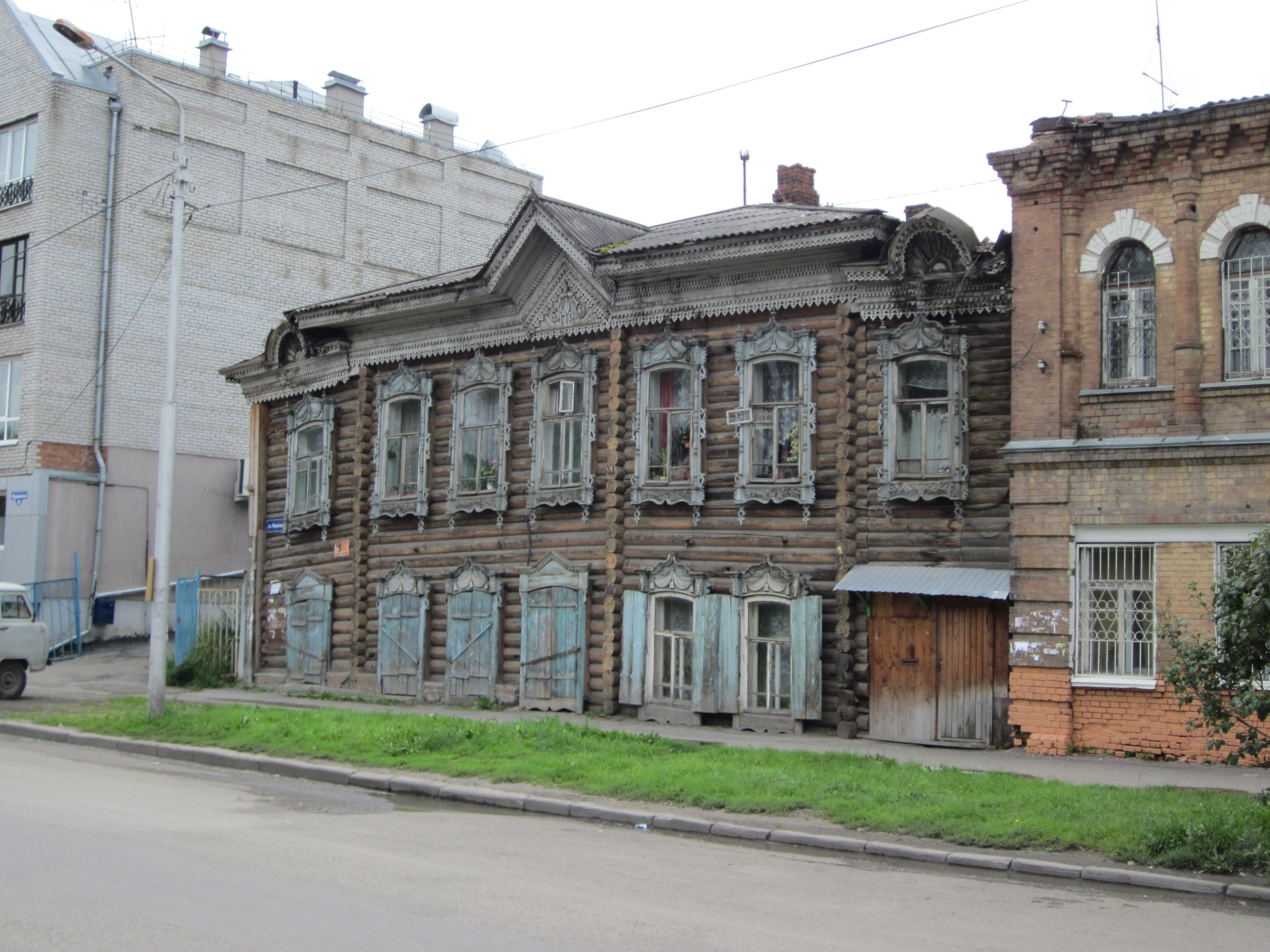 Wooden house in Tomsk, Russia